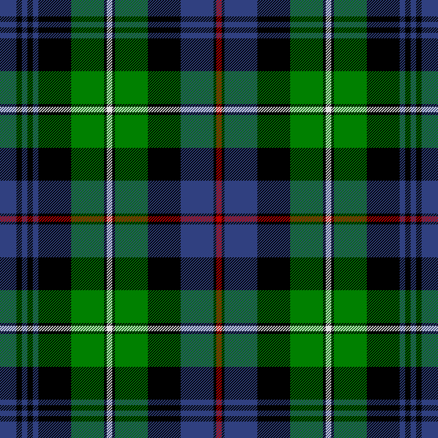 A digital representation of the Mackenzie, and Seaforth Highlander tartan.